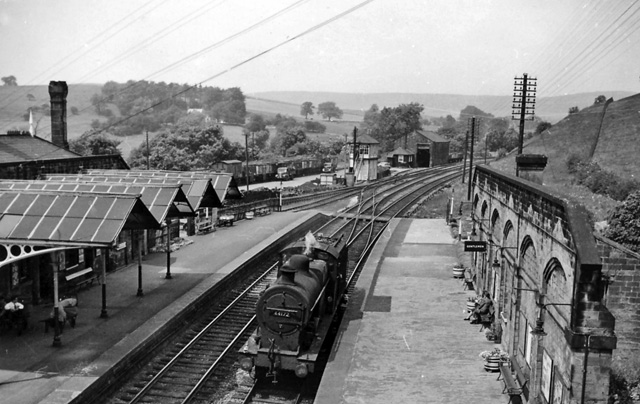 Bakewell Station. View NW of station on the still very active Peak Main Line. This station, and the line Matlock - Chinley were closed in March 1967 (July 1968 for Goods). Here a Class 4F 0-6-0 runs Up light-engine, probably after banking a freight train up from Rowsley to Peak Forest.